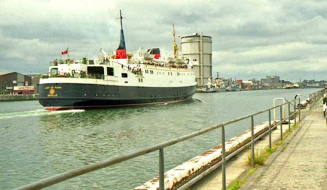 The Lady of Mann at Dublin. The redevelopment of this part of the Liffey was still many years away as the Lady of Mann headed upstream, towards the Custom House Quay, with the 08.00 from Douglas. Visible at the quays (far bank) are (l-r) the Irish Lights tender Gray Seal and the LE Deidre. At far right are the two Guinness boats the Miranda Guinness and The Lady Patricia.